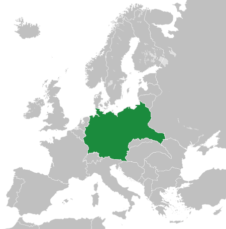 Location of Nazi Germany